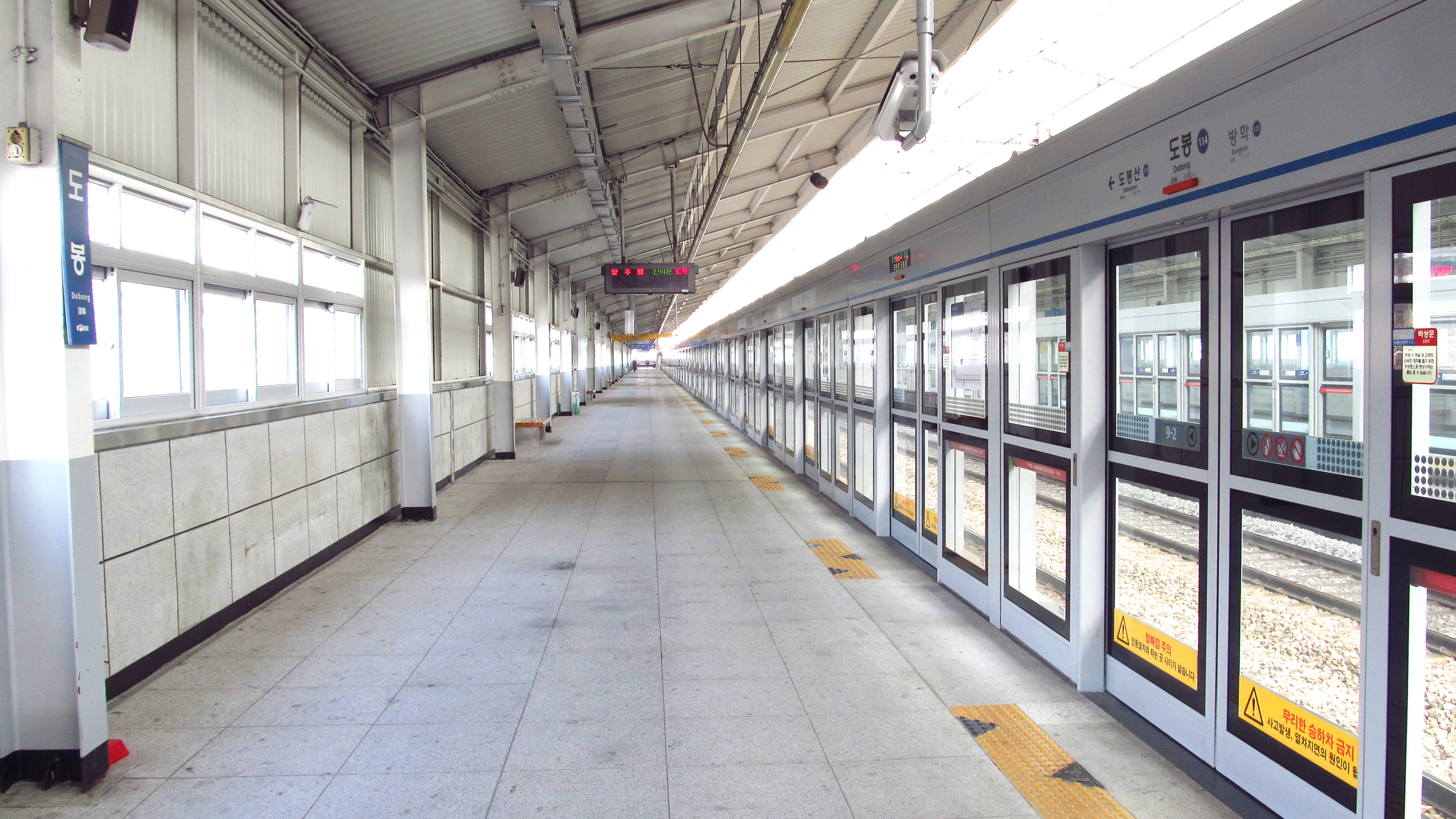 The platform at Dobong Station on Seoul Subway Line 1 in Dobong-gu, Seoul, Republic of Korea(South Korea)